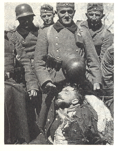 30.04.1940 - German soldiers from 372. Infanterie-Division after the battle of Anielin and their "trophy" - the death body of major Henryk Dobrzanski "Hubal"